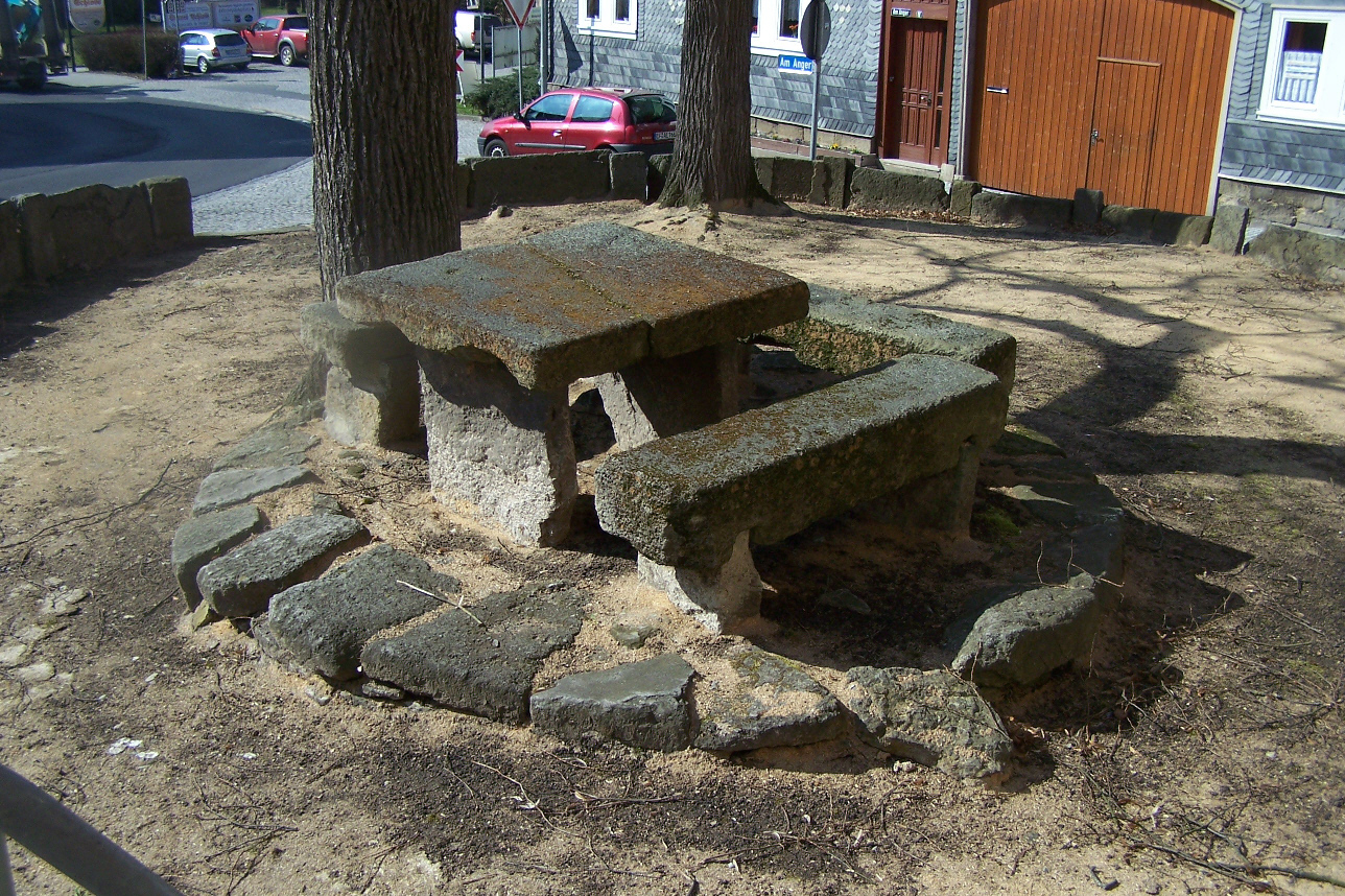 In Mihla at the "Anger" place.